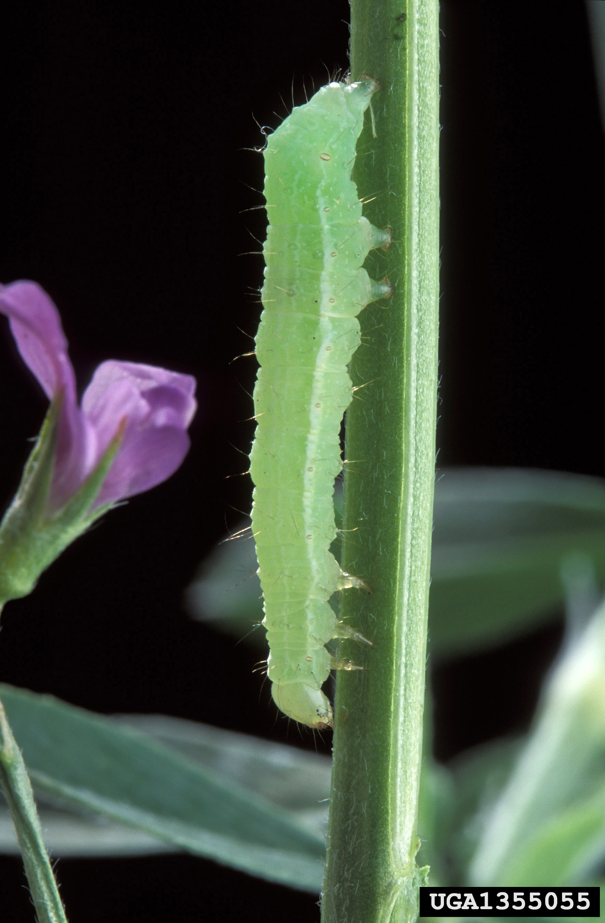 Autographa californica_larva